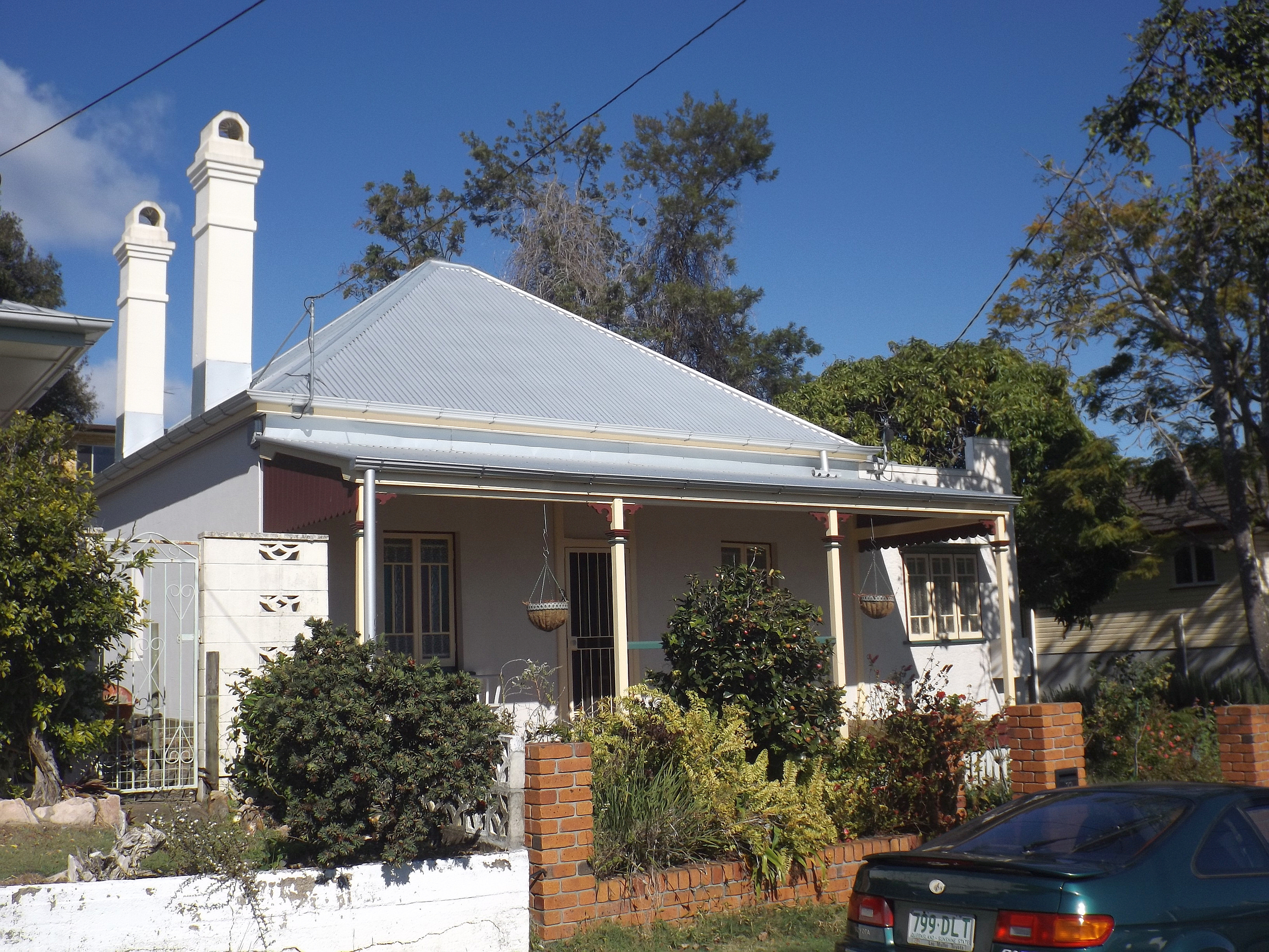 Photo of Bess Street Brick Cottages at Windsor, Brisbane, Queensland, Australia. This house is at 22 Bess Street.